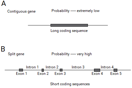 (A) The probability for a contiguous gene, say 70 nucleotides long, is 4-70. The length of the random sequence in which it is expected to occure once is 10^42 nucleotides. (B) In contrast, when this gene is split into many exons , say 5 exons with 17, 10, 9, 20 and 15 nucleotides consecutively, the probability for the gene is essentially that of the longest exon (20 nucleotides). The probability for this split gene is thus 4^-20 and its expected mean length is reduced tremendously to 10^12 nucleotides.